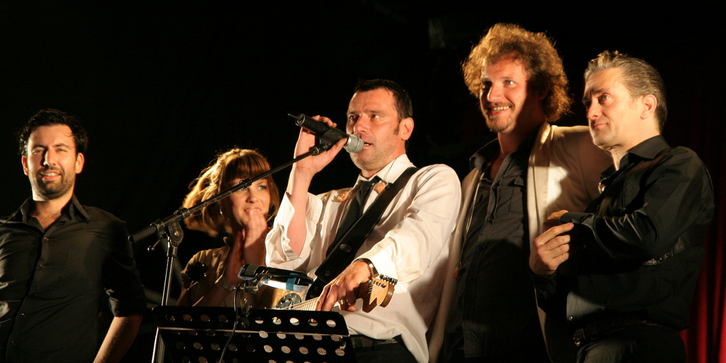 Daan with band at Boomtown festival, Ghent (summer 2009). Left to right: Jorg Strecker, Isolde Lasoen (drums), Daan Stuyven, Jeroen Swinnen, Steven Janssens